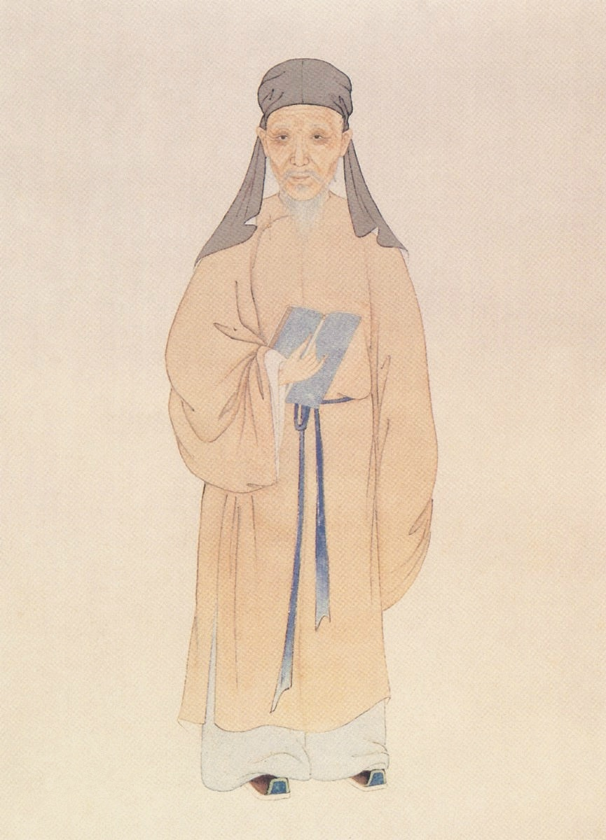 Huang Zhongxi (1610-1695), Chinese philosopher